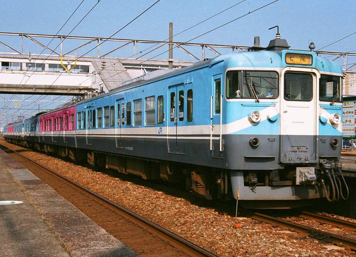 West Japan Railway Type415-800 HokurikuLine(Japan). (EMU means electric multiple unit.)JR西日本415系電車 It takes a picture from the home at HokurikuLine Mattou Station. 北陸本線松任駅にて ホームより撮影